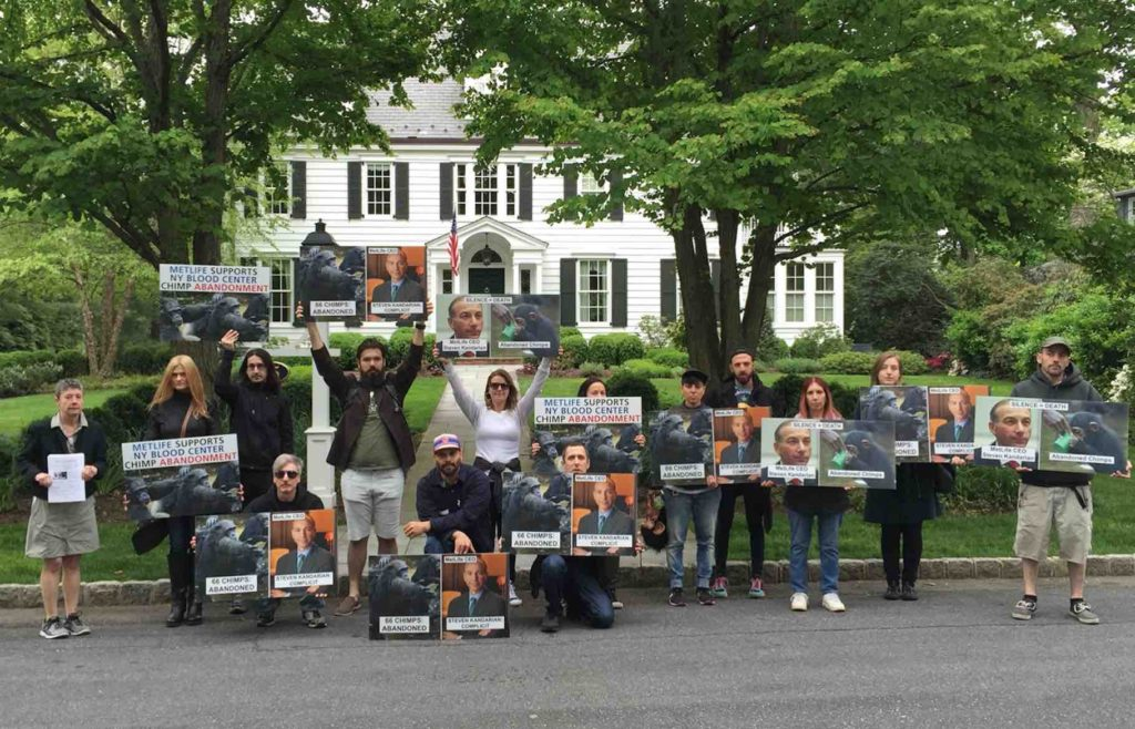 Animal rights activists hold a demonstration outside Kandarian's home on behalf of the 66 chimpanzees abandoned by the New York Blood center